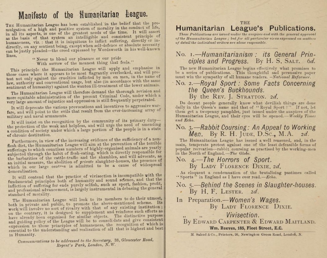 Pages from the Humanitarian League, appearing in Behind the Scenes in Slaughter-Houses.